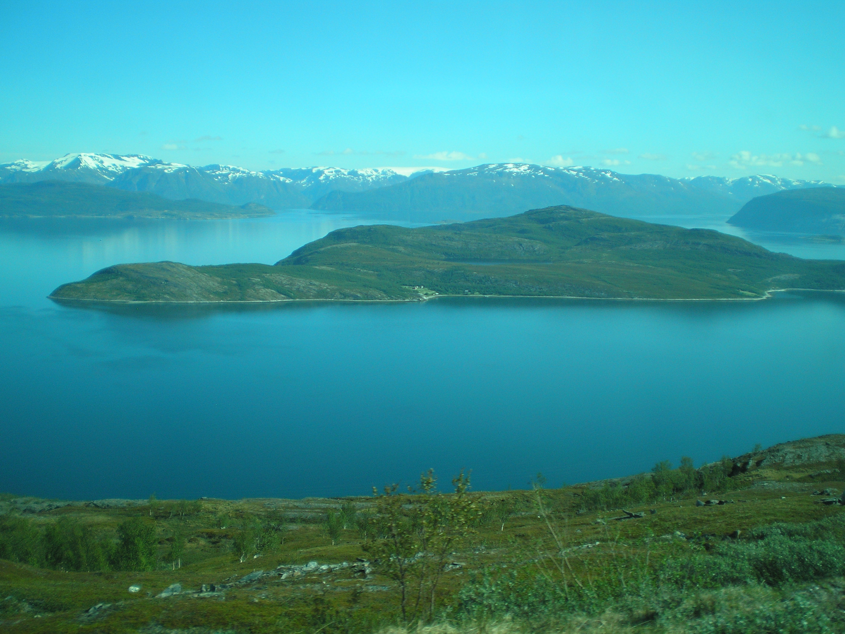 Skorpa island, in Kvænangenfjorden, from Gildetun (Norway).